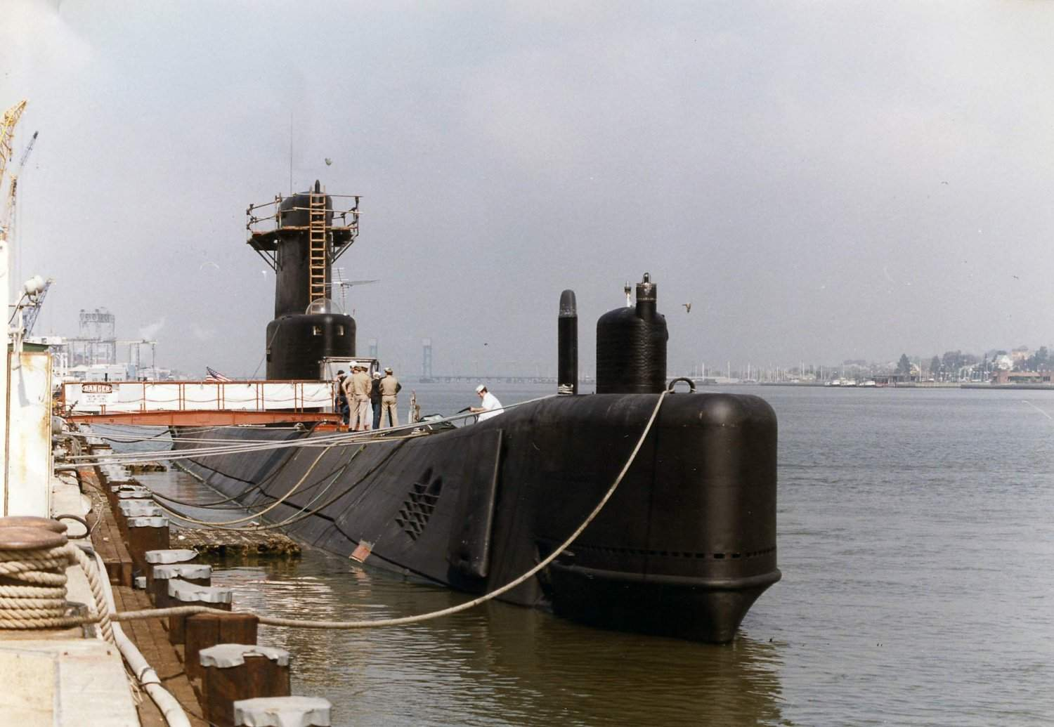 Seawolf (SSN-575) at Mare Island on 22 March 1984.